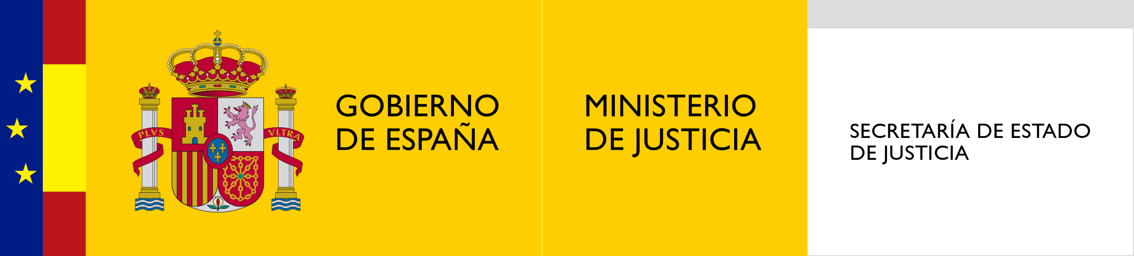 Logo of the Secretariat of State of Justice of Spain